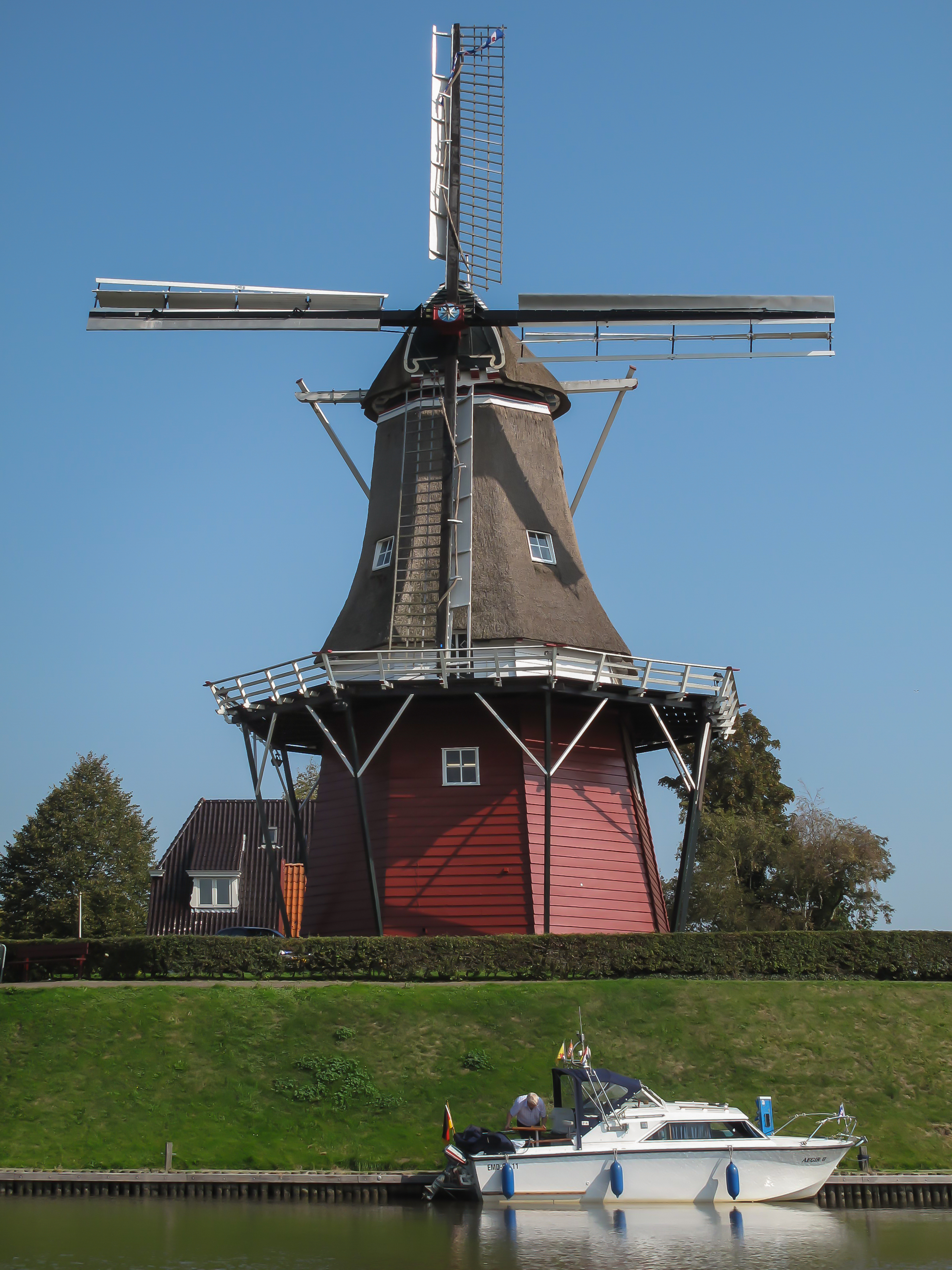 Dokkum, windmill: molen de Hoop